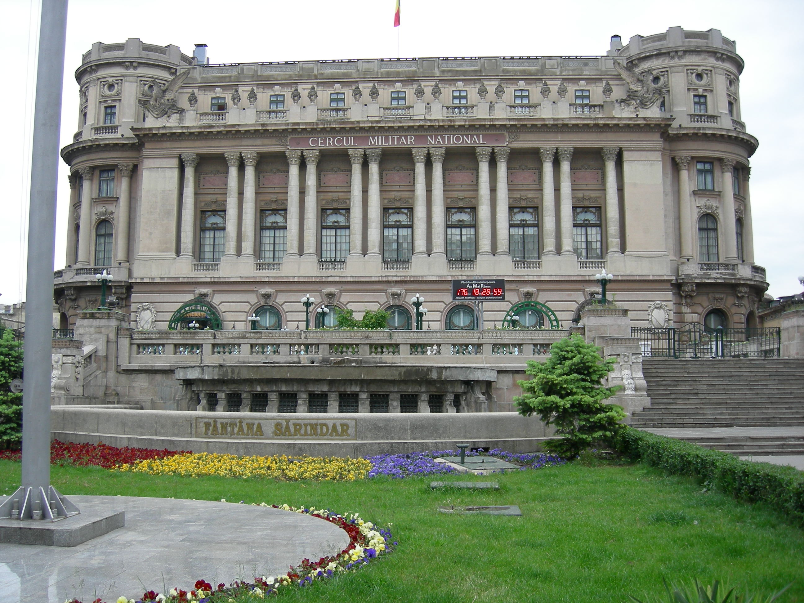 Cercul Militar Naţional, Calea Victoriei, Bucharest, Romania. Note in the front the Fântana Sârdânar (Sârdânar Fountain), named after the monastery that was at this site before the Cercul Militar.